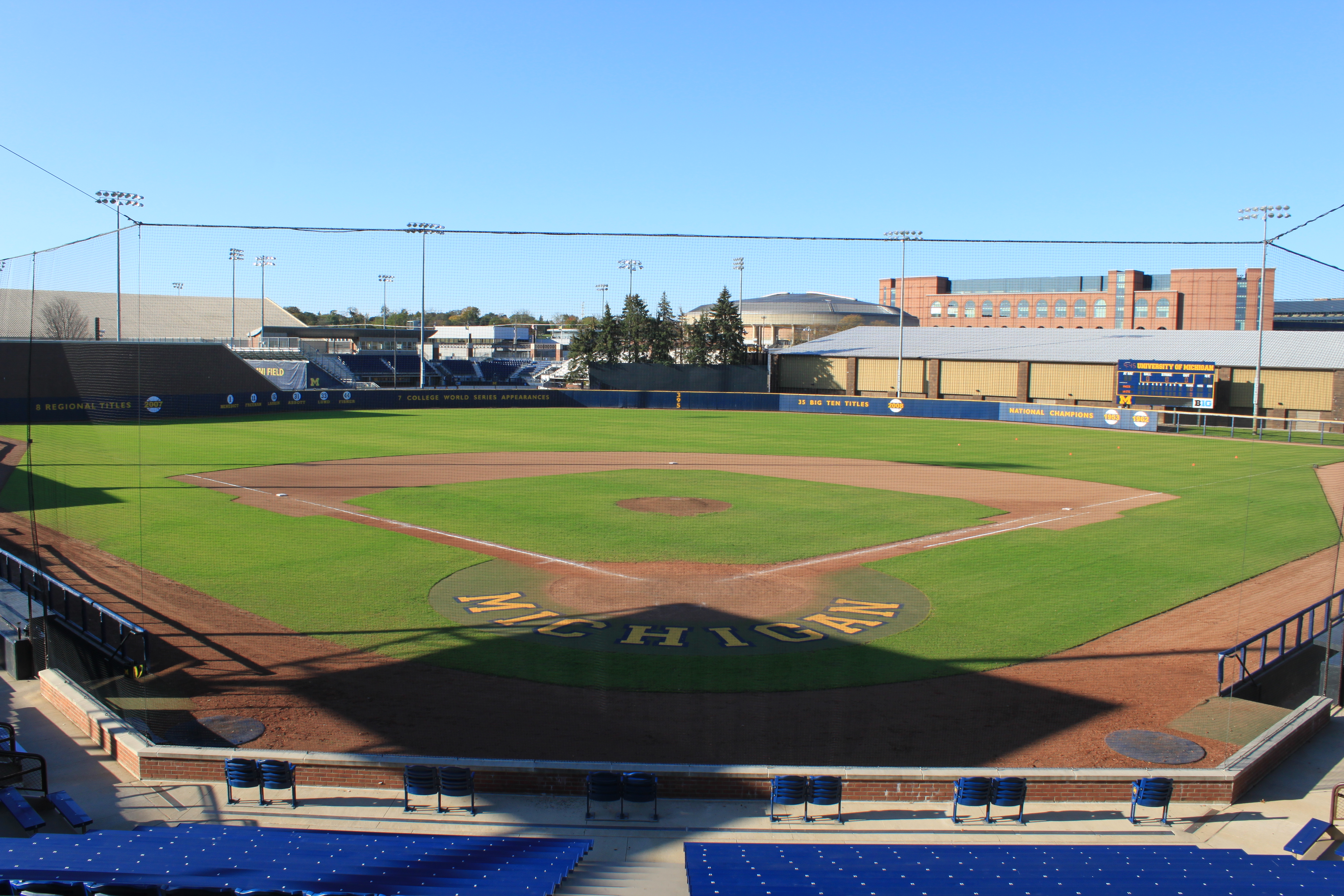 Ray Fisher Stadium, University of Michigan Campus, Ann Arbor, Michigan